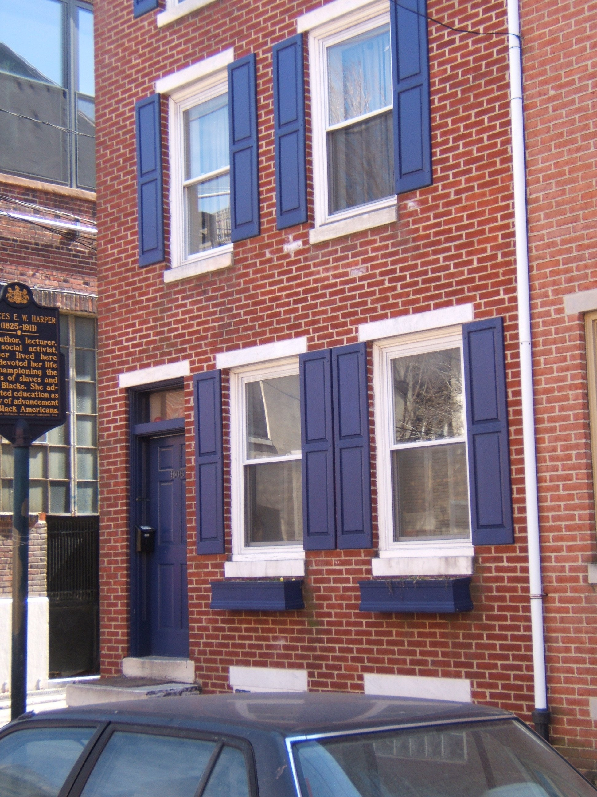 Frances Ellen Watkins Harper House was the home of Frances Harper, located 1006 Bainbridge St., Philadelphia, Pennsylvania Built ca. 1870.